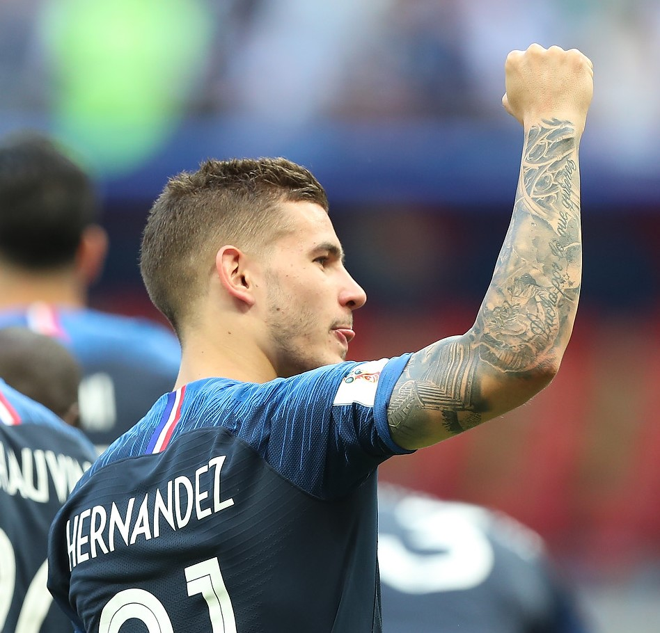 Lucas Hernández